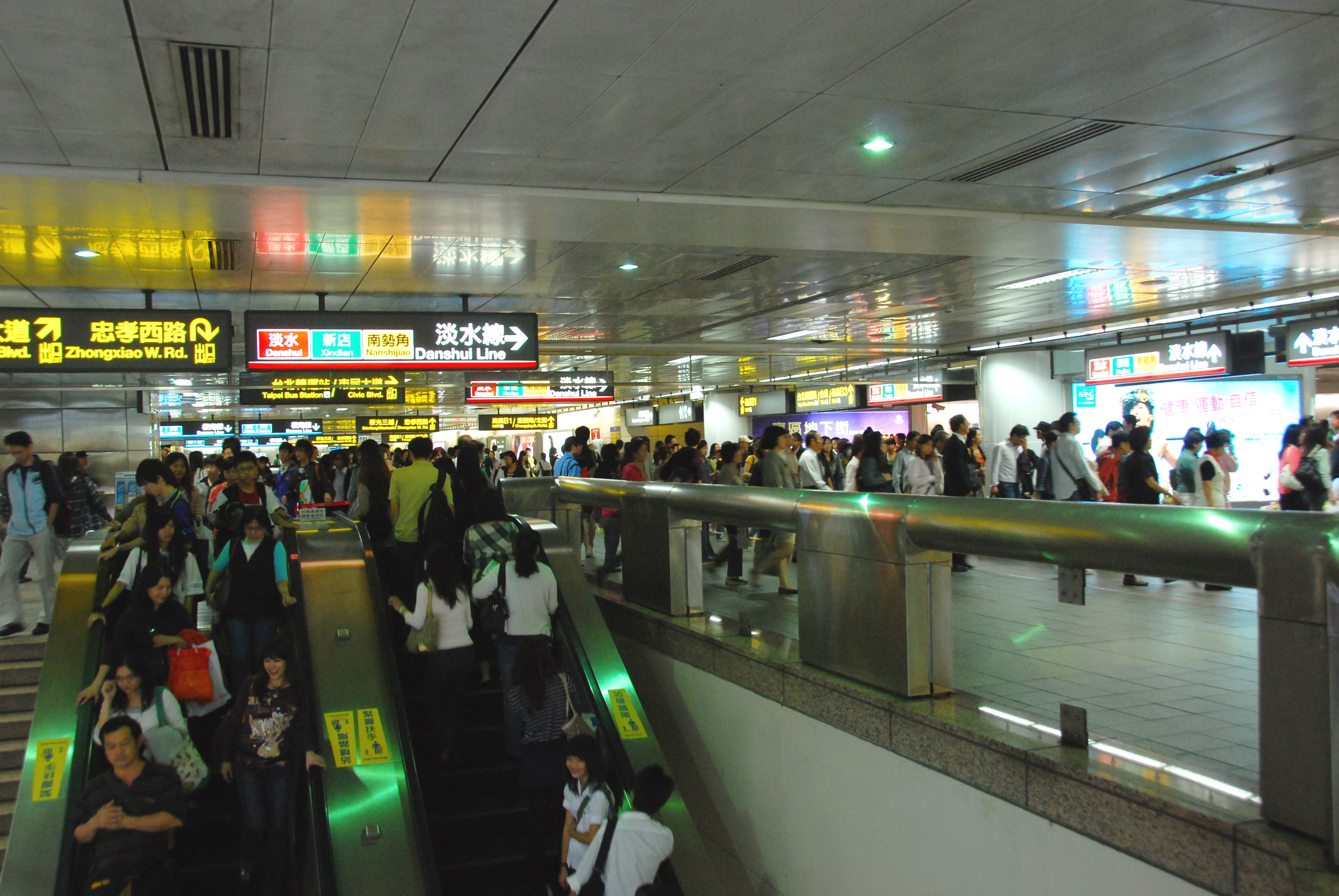 Concourse on the B2 floor in the Taipei Station